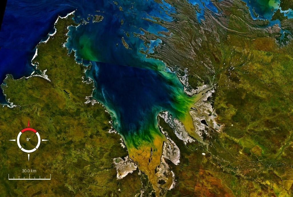 King Sound, Western Australia, Landsat imagery viewed with NASA World Winds software.